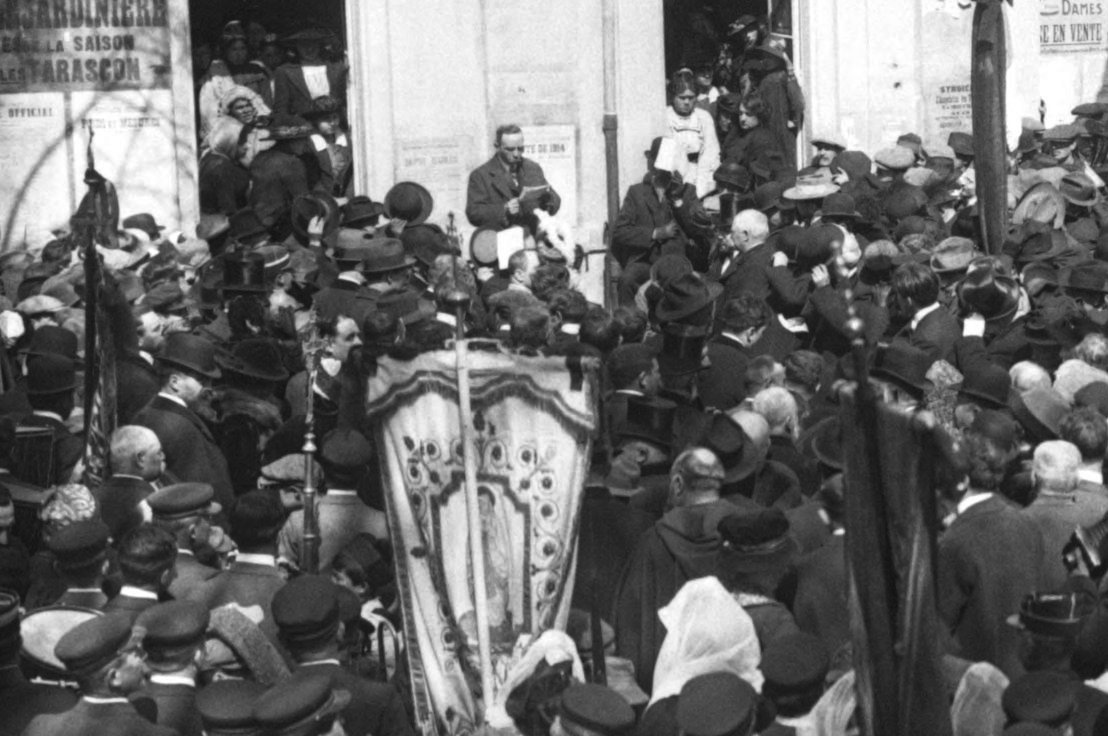 Valèri Bernard's address during Frederic Mistral's burial